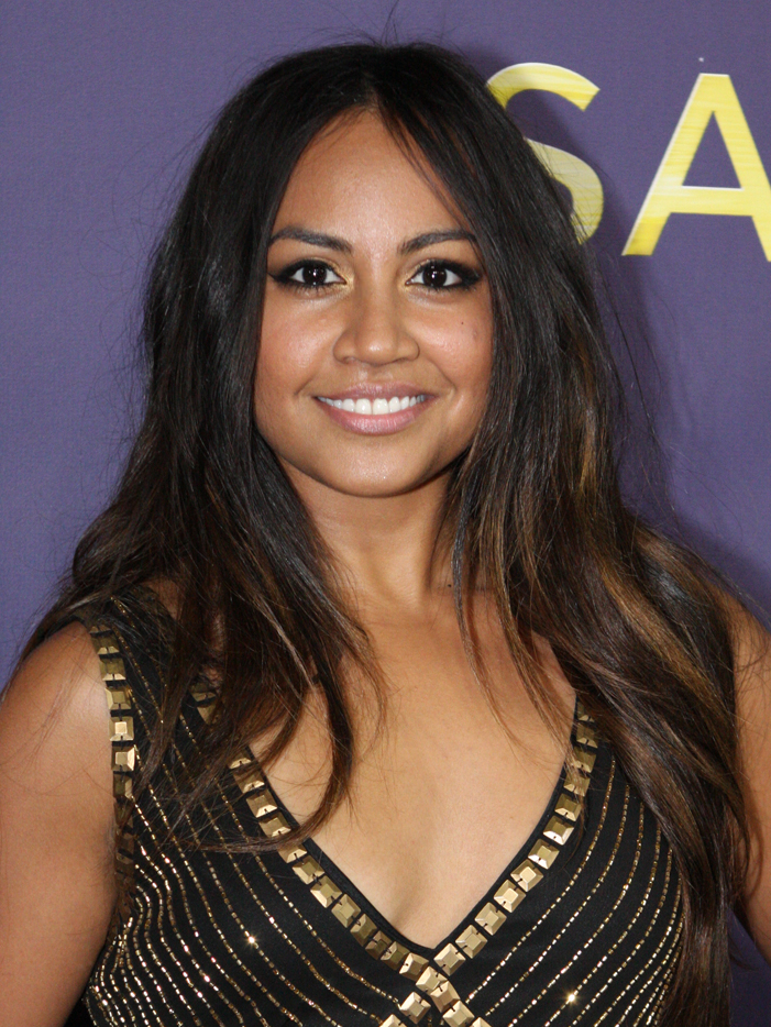 Jessica Mauboy at the The Saphires Hometown Gala Premiere - State Theatre Sydney 2012.